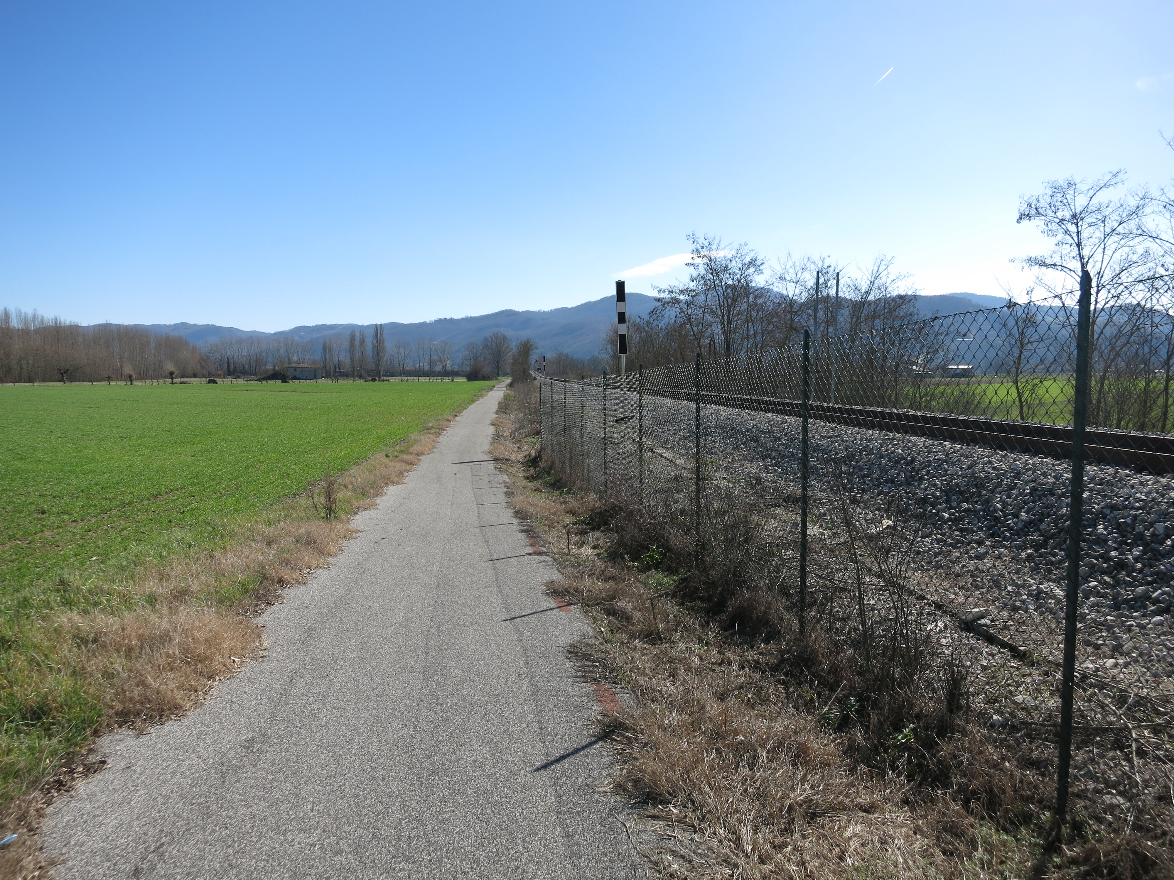 Ciclovia della Conca Reatina, bikeway in the province of Rieti (Lazio, Italy)